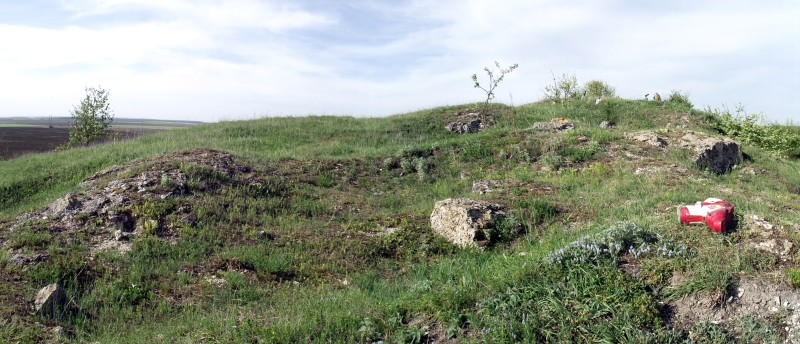 temple on Mount Sabaryha